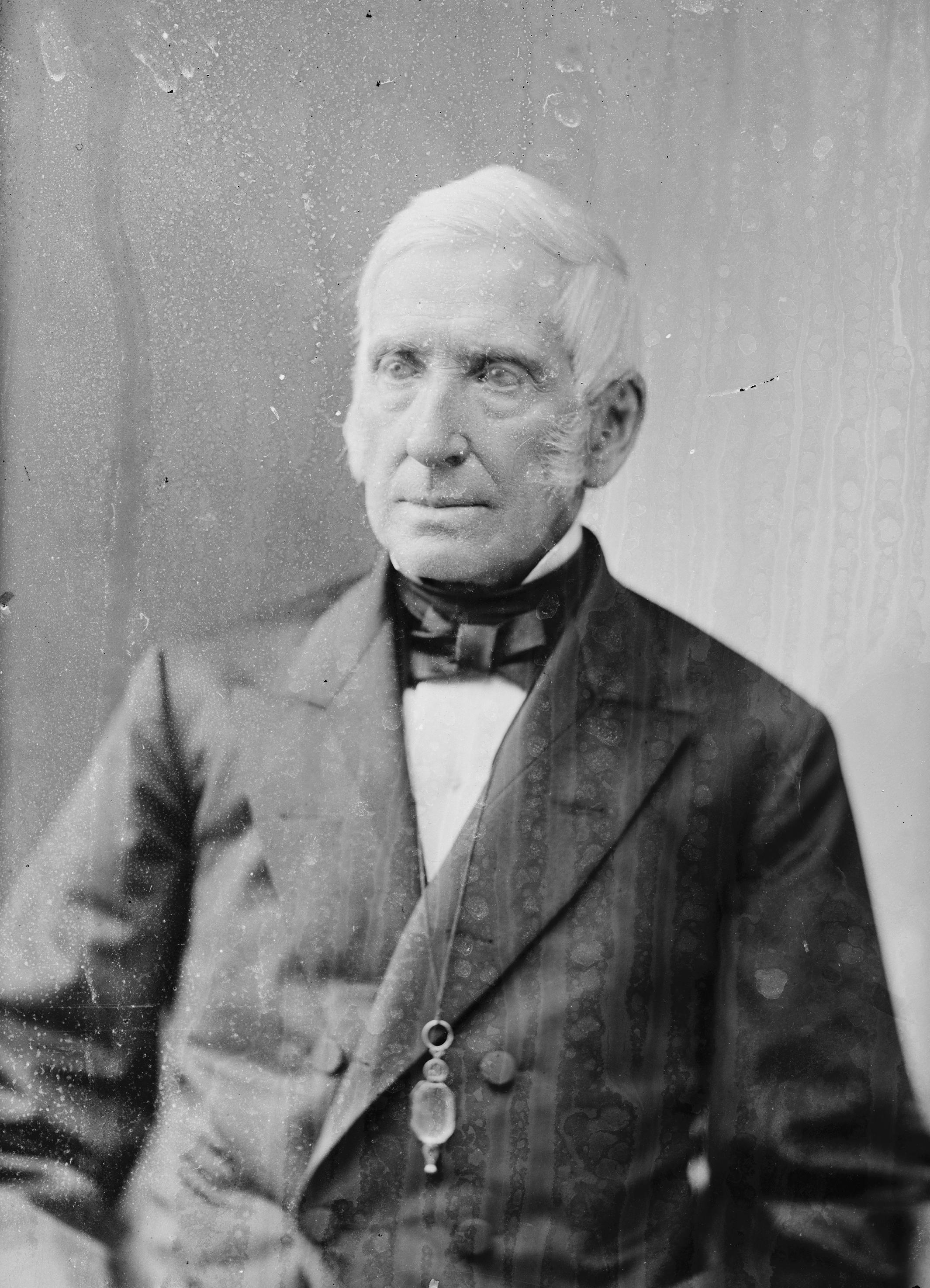 Samuel Augustus Bridges. Library of Congress description: "Bridges, Hon. S.A. of PA"